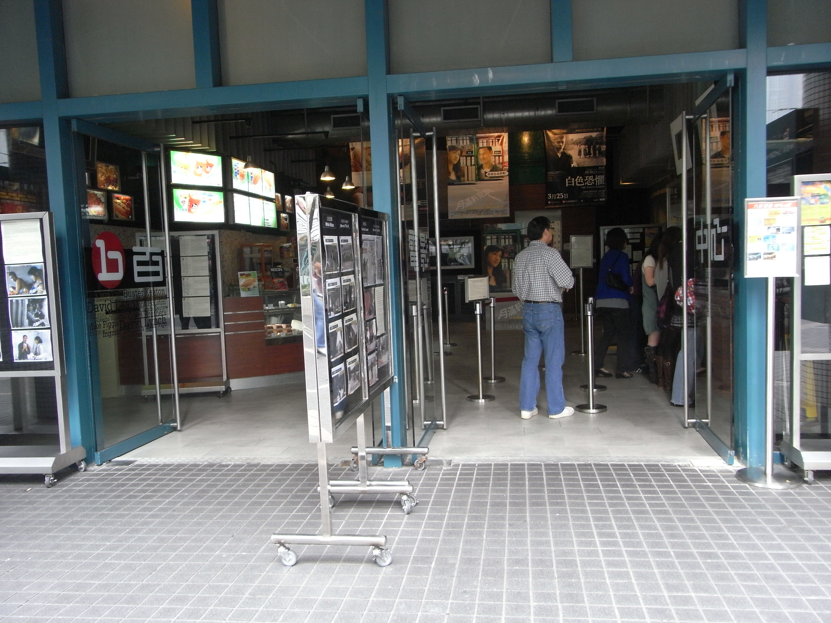 油麻地 百老匯電影中心戲院入口 東莞街